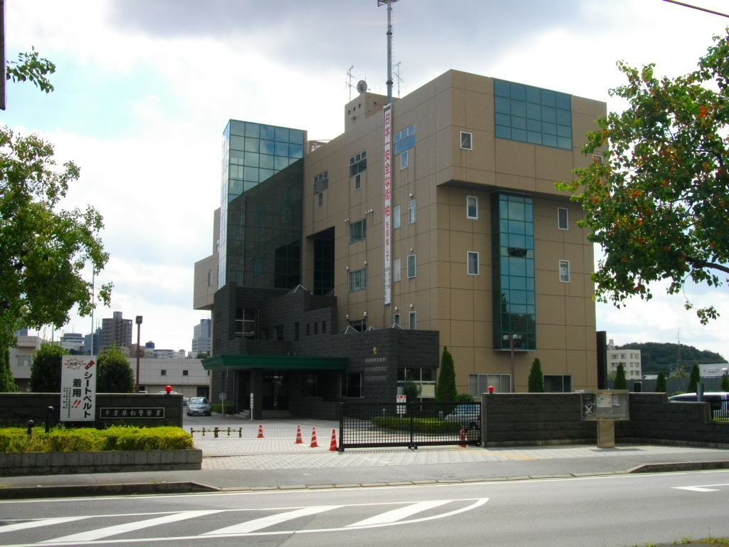 Kashiwa Police Station